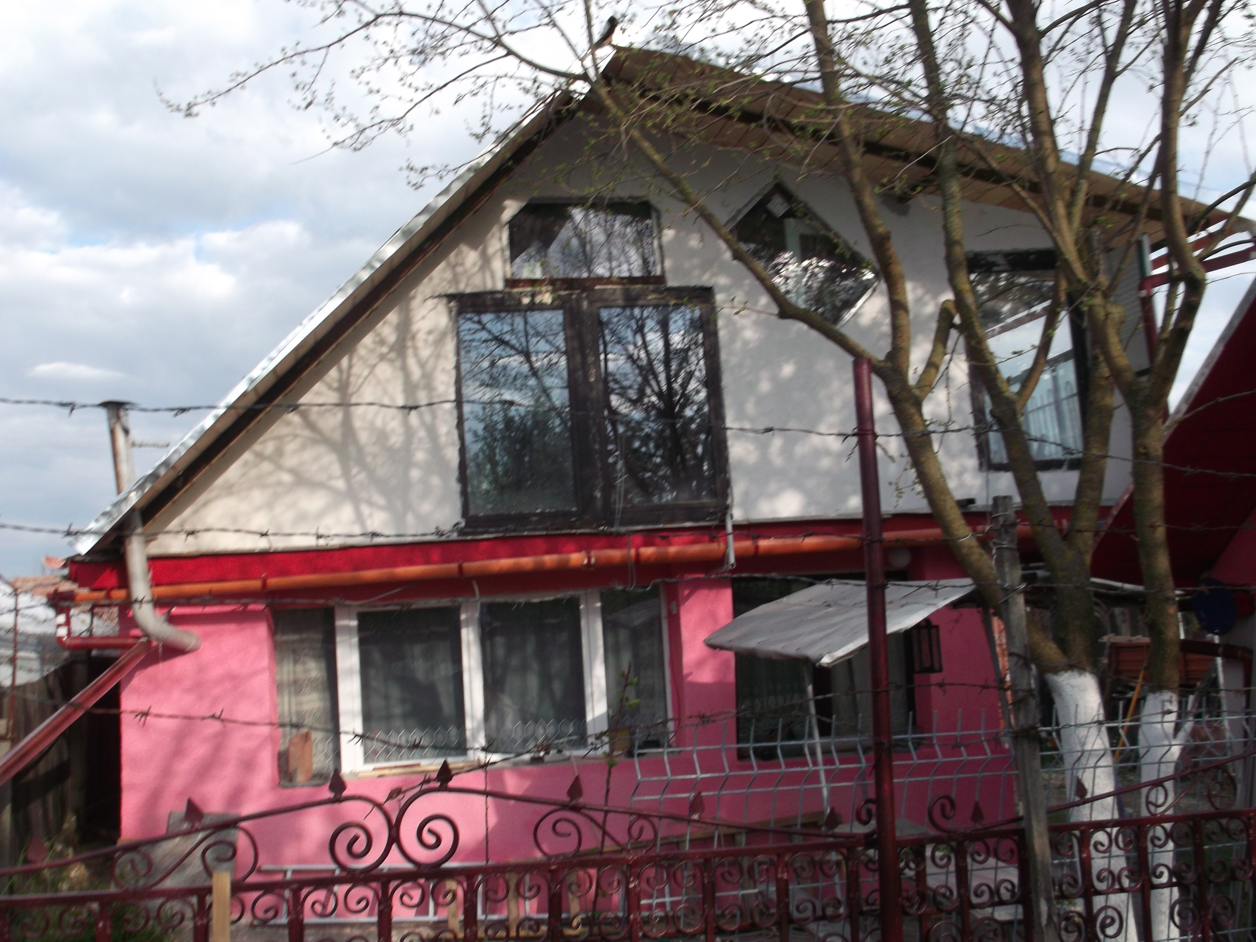 A house in Aruncuta, Romania, mixing traditional with modern elements.